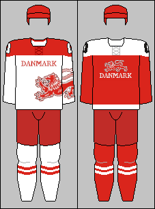 The home and away jerseys of the Danish national ice hockey team. The Lion is based on the Lions in the Danish coat of arms